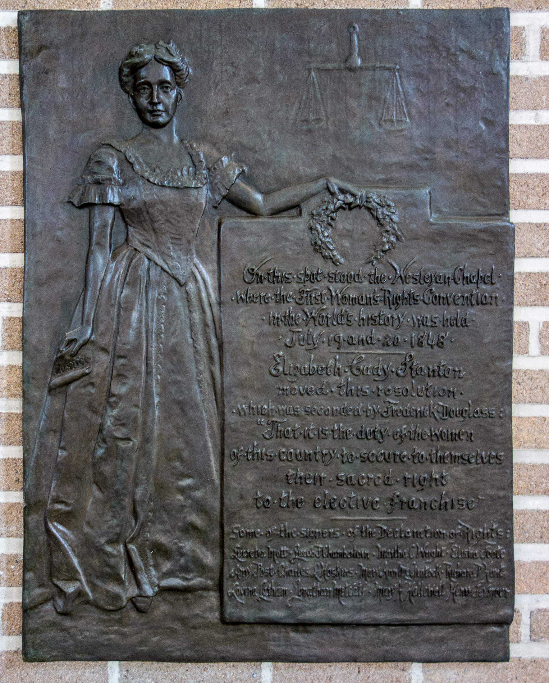 Wesleyan Methodist Church